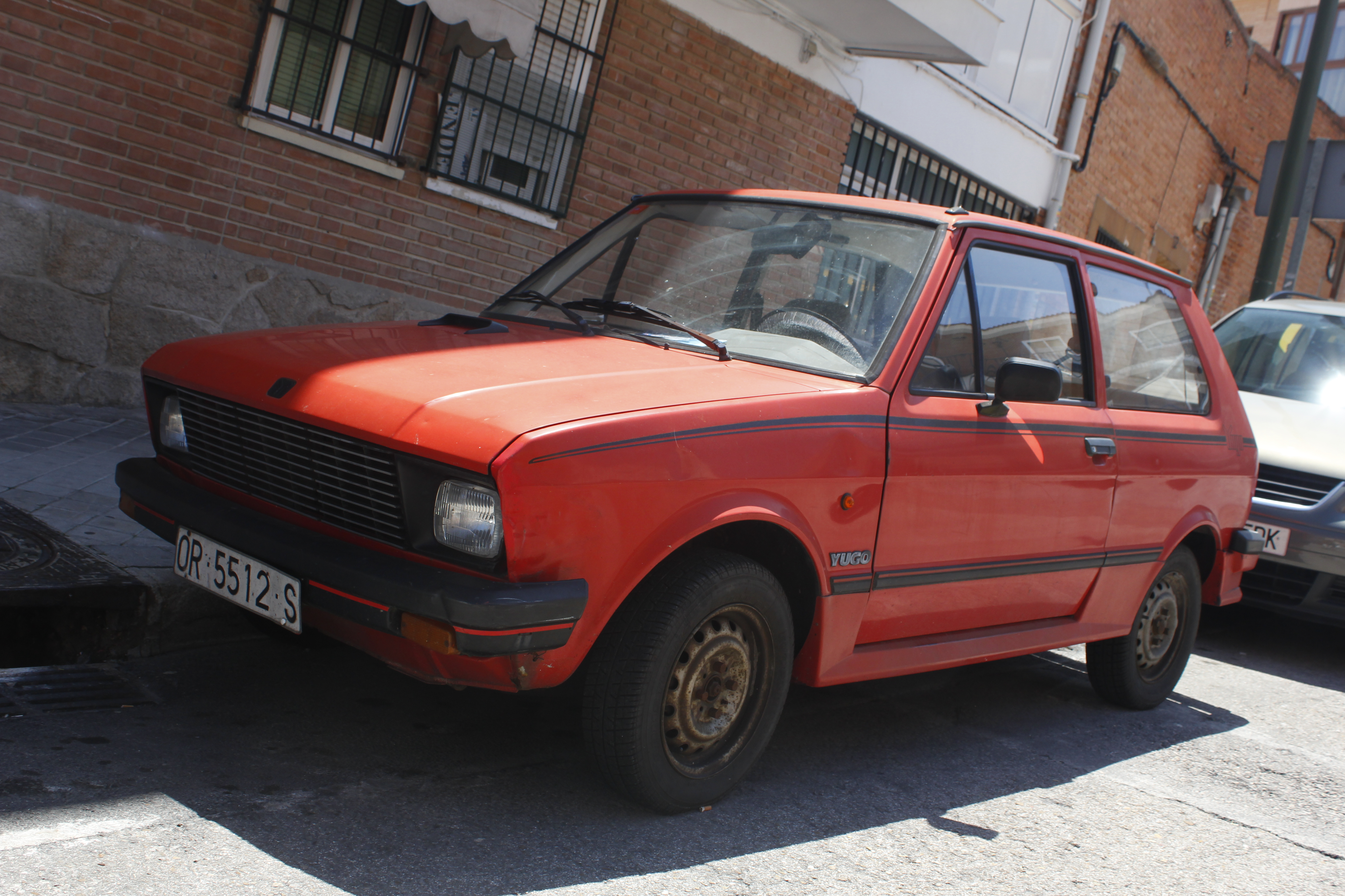 Une Yugo 55A à Madrid en 2012 (photo mise à ma disposition par Coopey).